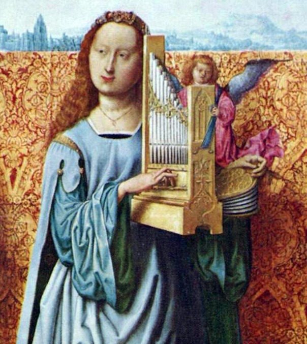 detail: Saint Cecilia playing the organ